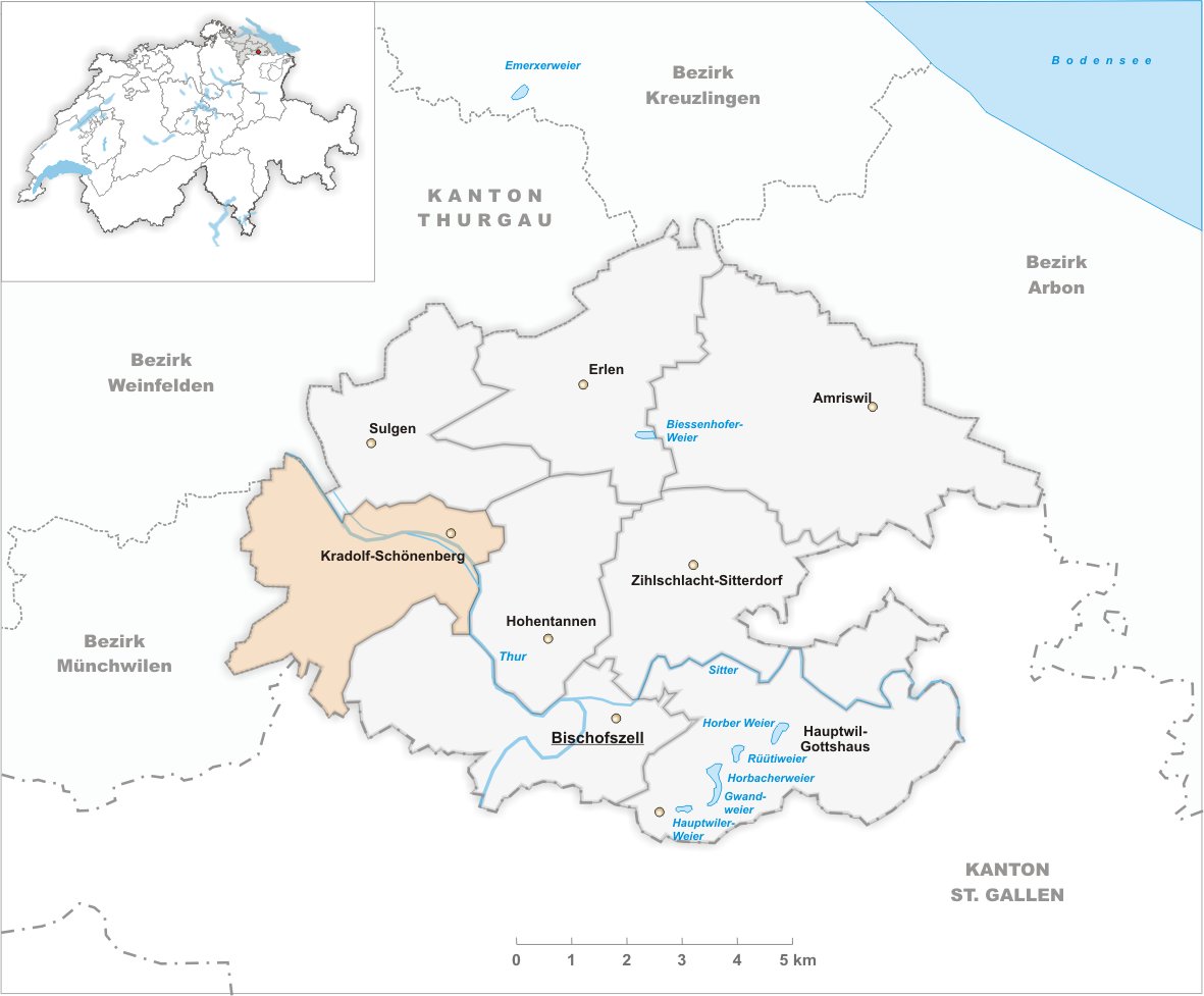 Municipality Kradolf-Schönenberg